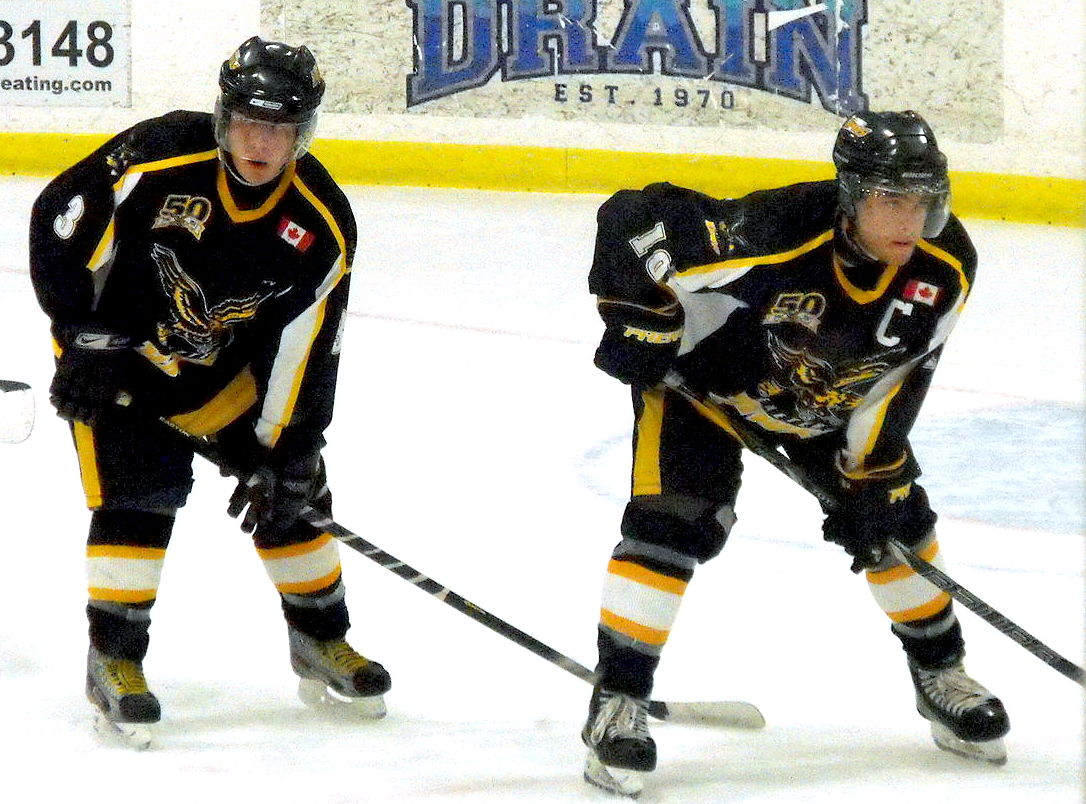 These images of SOJHL action during the 2013-14 season are taken by Devan Mighton.